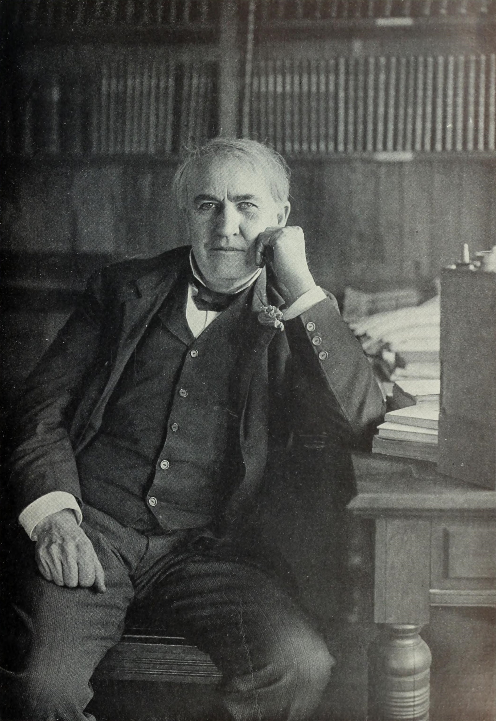 Portrait of Thomas Alva Edison